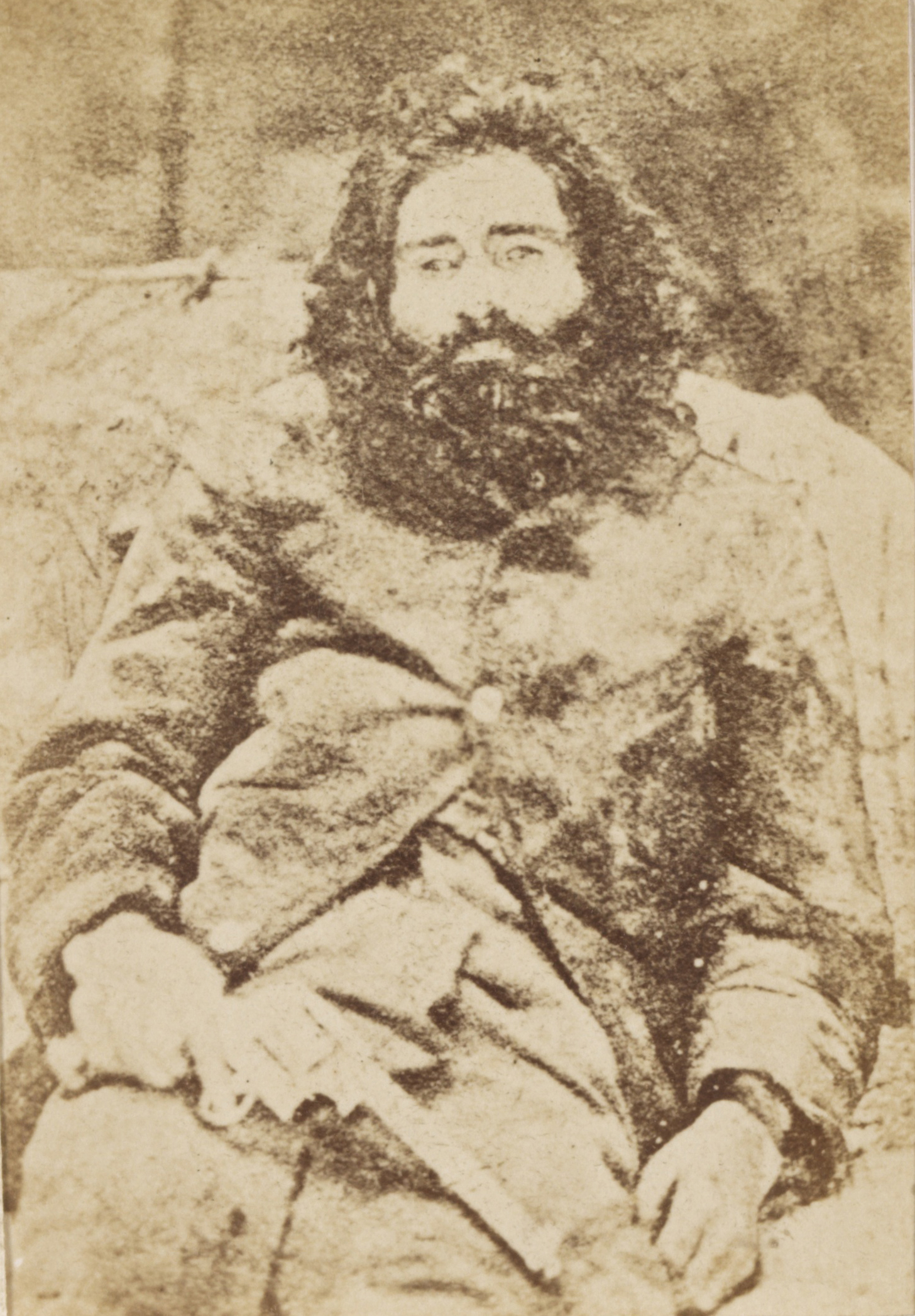 Australian bushranger Dan Morgan shot at Peechelba Station.